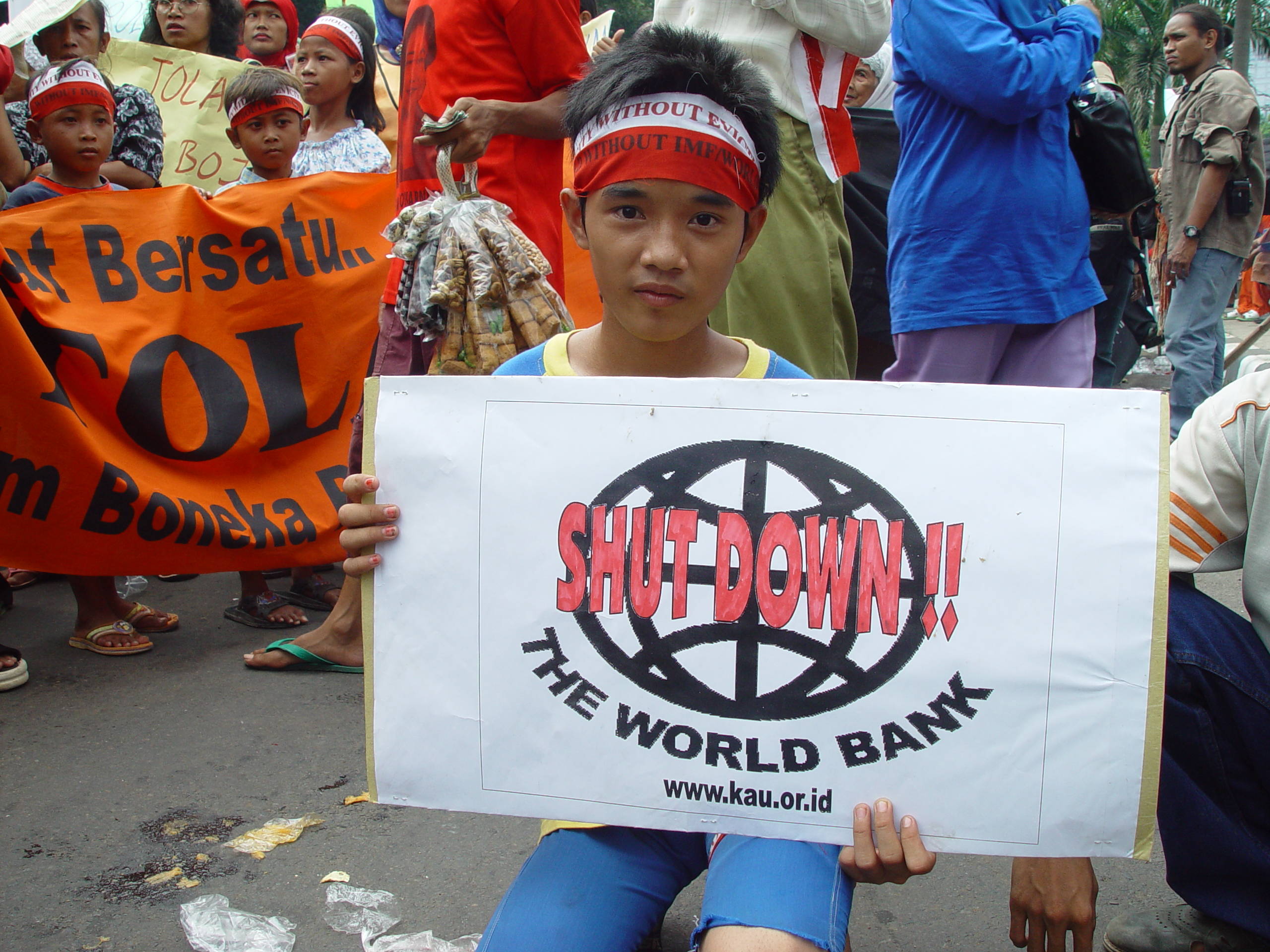 World Bank Protester, Jakarta Indonesia. Bân-lâm-gú: Tī Ìn-nî Ngá-ka-ta̍t khòng-gī Sè-kài Gîn-hâng ê lâng. 佇印尼雅加達抗議世界銀行的儂。